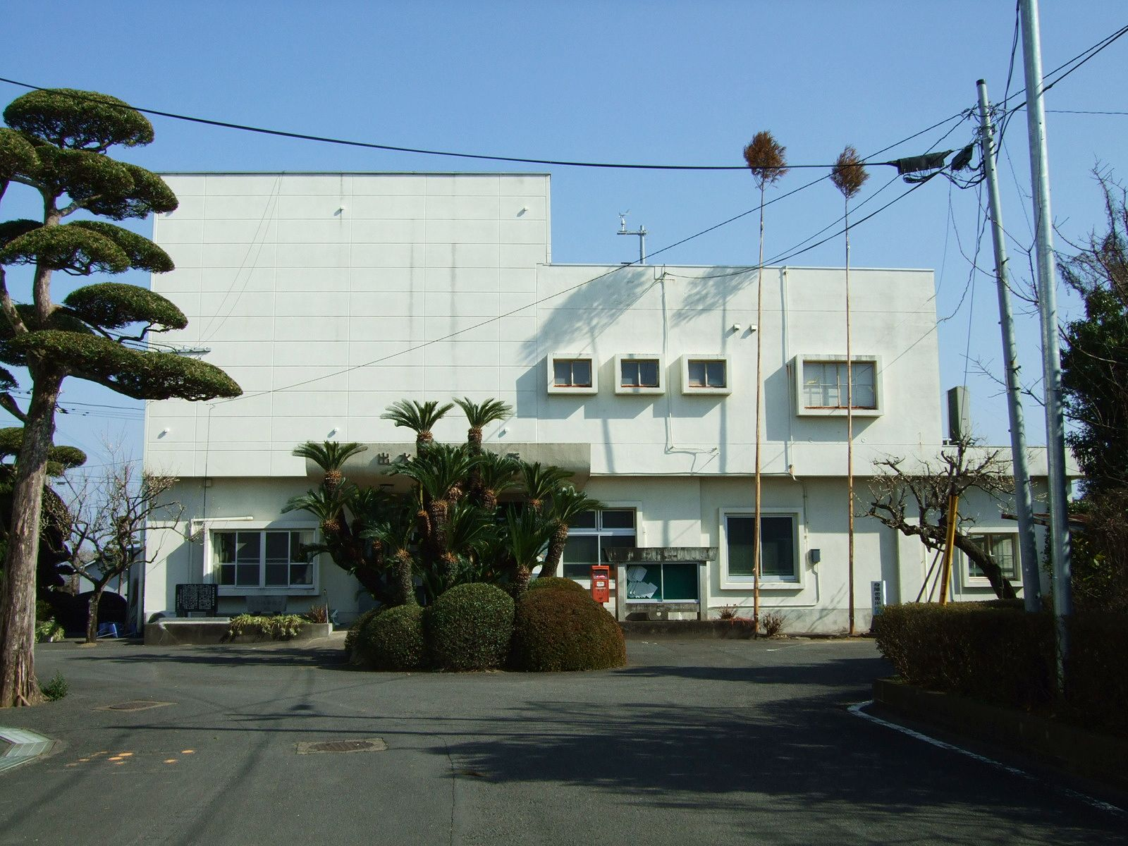 Izumi City Office Noda Branch